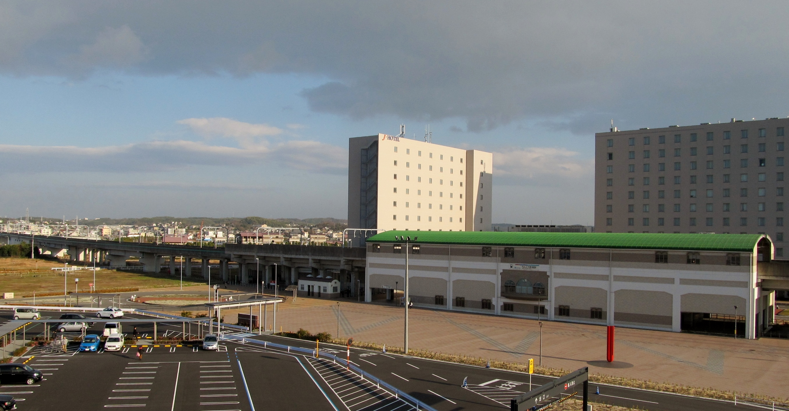 Panorama of Rinkū Tokoname Station, Nagoya Railroad Airport Line.